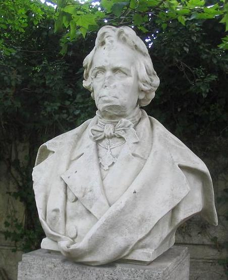 Bust of the sculptor Christian Daniel Rauch. Side bust in the Monument group № 31 in Berlin's former Siegesallee with the central monument commemorating Frederick William IV of Prussia. Sculptor: Karl Begas the Younger, unveiled on 26 October 1900.